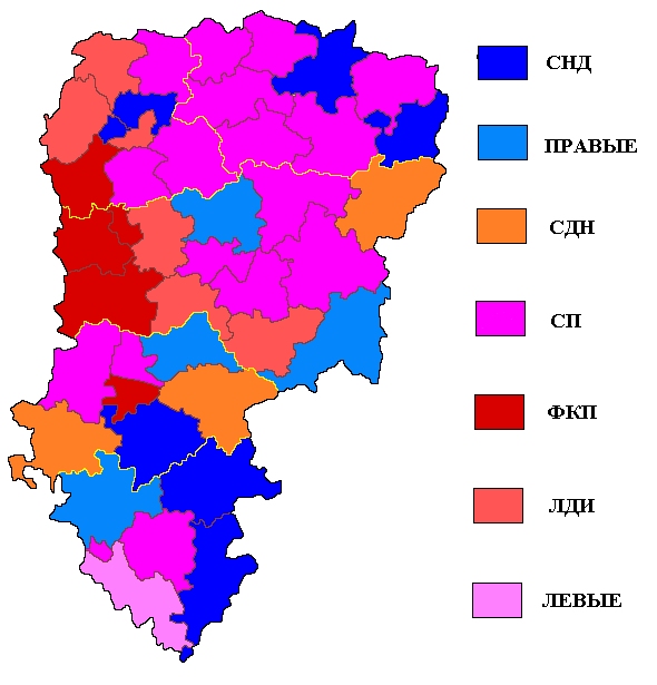 Состав генерального совета департамента Эна в 2011-2015 гг.